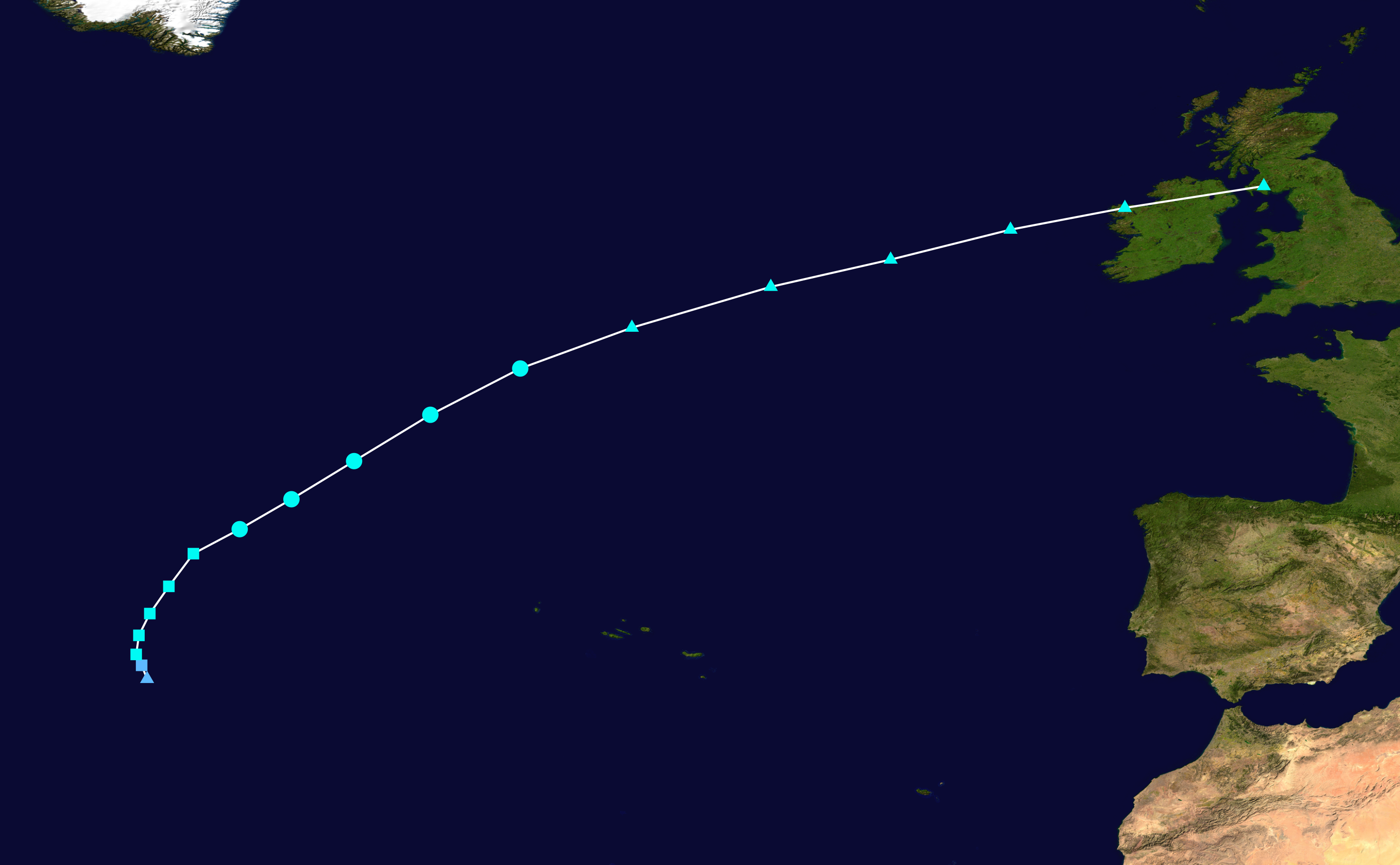 Track map of Tropical Storm Ernesto (2018) of the 2018 Atlantic hurricane season. The points show the location of the storm at 6-hour intervals. The colour represents the storm's maximum sustained wind speeds as classified in the Saffir–Simpson scale (see below), and the shape of the data points represent the nature of the storm, according to the legend below. Saffir–Simpson scale Tropical depression≤38 mph≤62 km/h Category 3111–129 mph178–208 km/h Tropical storm39–73 mph63–118 km/h Category 4130–156 mph209–251 km/h Category 174–95 mph119–153 km/h Category 5≥157 mph≥252 km/h Category 296–110 mph154–177 km/h Unknown Storm type Tropical cyclone Subtropical cyclone Extratropical cyclone / Remnant low / Tropical disturbance / Monsoon depression